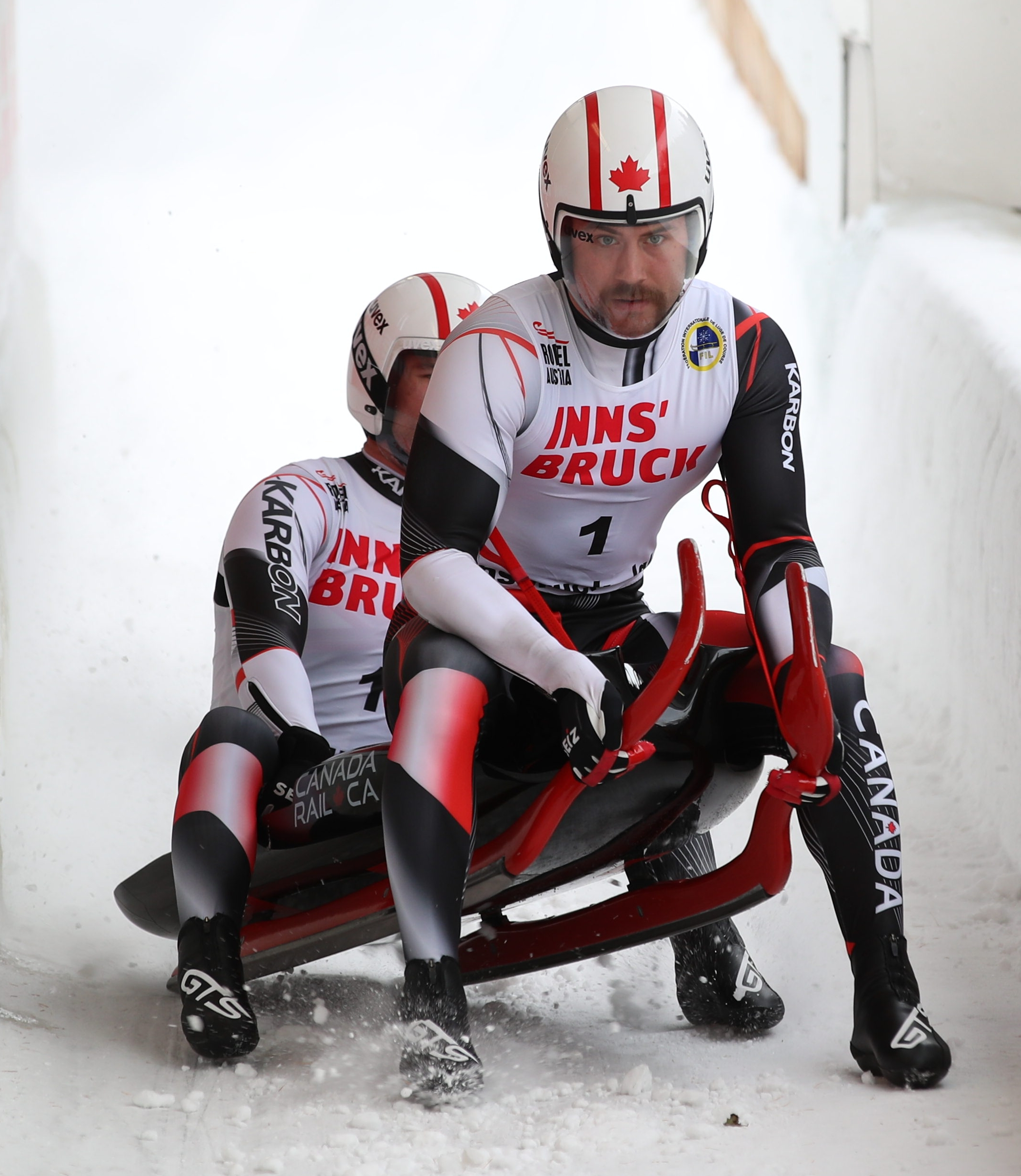 Doubles Nations Cup race at the 2019/20 Luge World Cup in Innsbruck-Igls